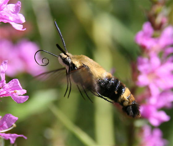 A Hemaris diffinis (Snowberry Clearwing) at the Fort Custer Recreation (state park) Area in Augusta, MI.